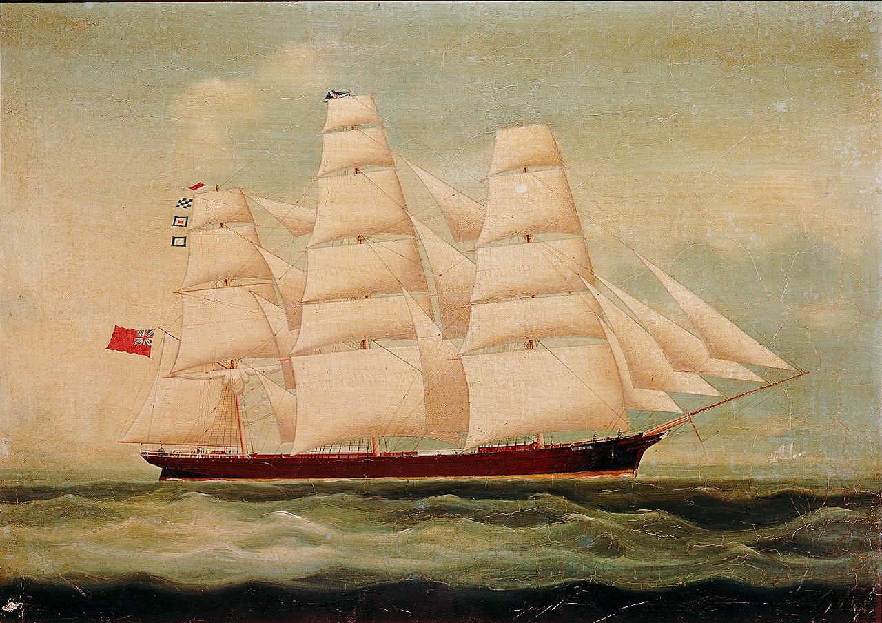 The ship ‘Windhover’ The ship was built by Charles Connell Shipyard at Glasgow, on the Clyde in 1868. Owned by J. Findlay & Co, Glasgow she was a tea clipper travelling regularly to China, sailing to Shanghai, Foo-Chow, Yokohama and Hong Kong. She was bought by Kerr & Co in 1881 and altered to a barque rig. In 1885 the ‘Windhover’ was wrecked when she hit a sunken reef on the Torres Strait NSW laden with coal for Batavia, although all on board survived. The ship ‘Windhover’